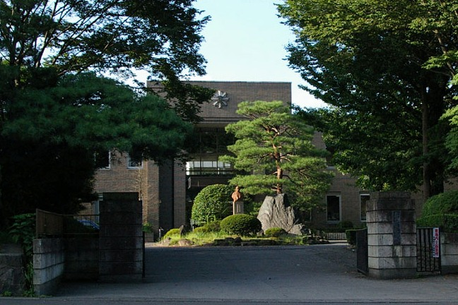 The Sendai Daini High School; One of the prefecture's oldest high schools located in an educational district of Sendai city, Japan. This once fancy boy's school established in 1900 was transformed into an ordinary coeducational school in 2007 even with a venement oppositions from tradition-loving people.